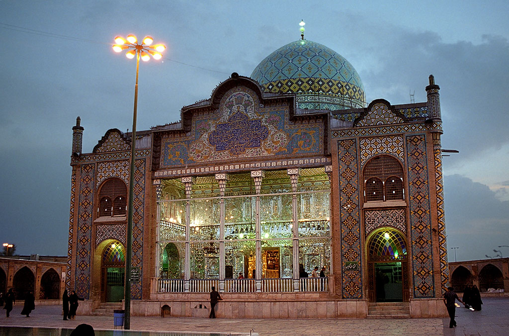 Emâmzâdeh-ye Hossein, 16th century, redesigned in 19th century ; it's the tomb of one of the 8th imam's sons. Qazvin, Iran.